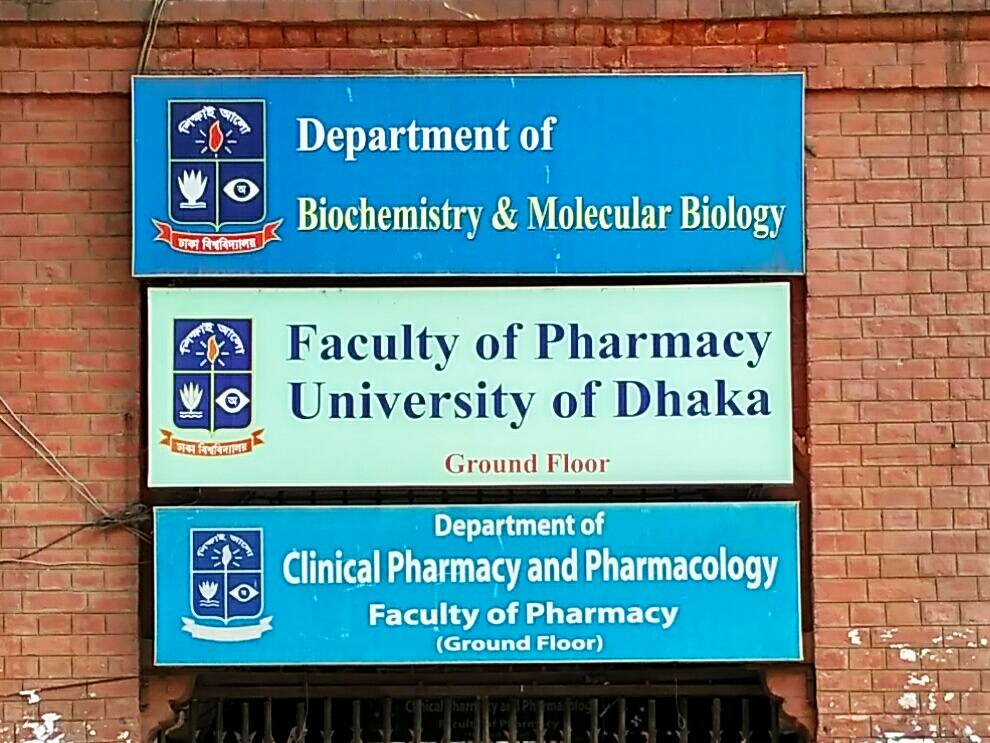 Name plate of the Department of Biochemistry and Molecular Biology, Faculty of Pharmacy, and Clinical Pharmacy and Pharmacology in Faculty of Pharmacy building, Curzon Hall area, Dhaka University. (29.03.2019)